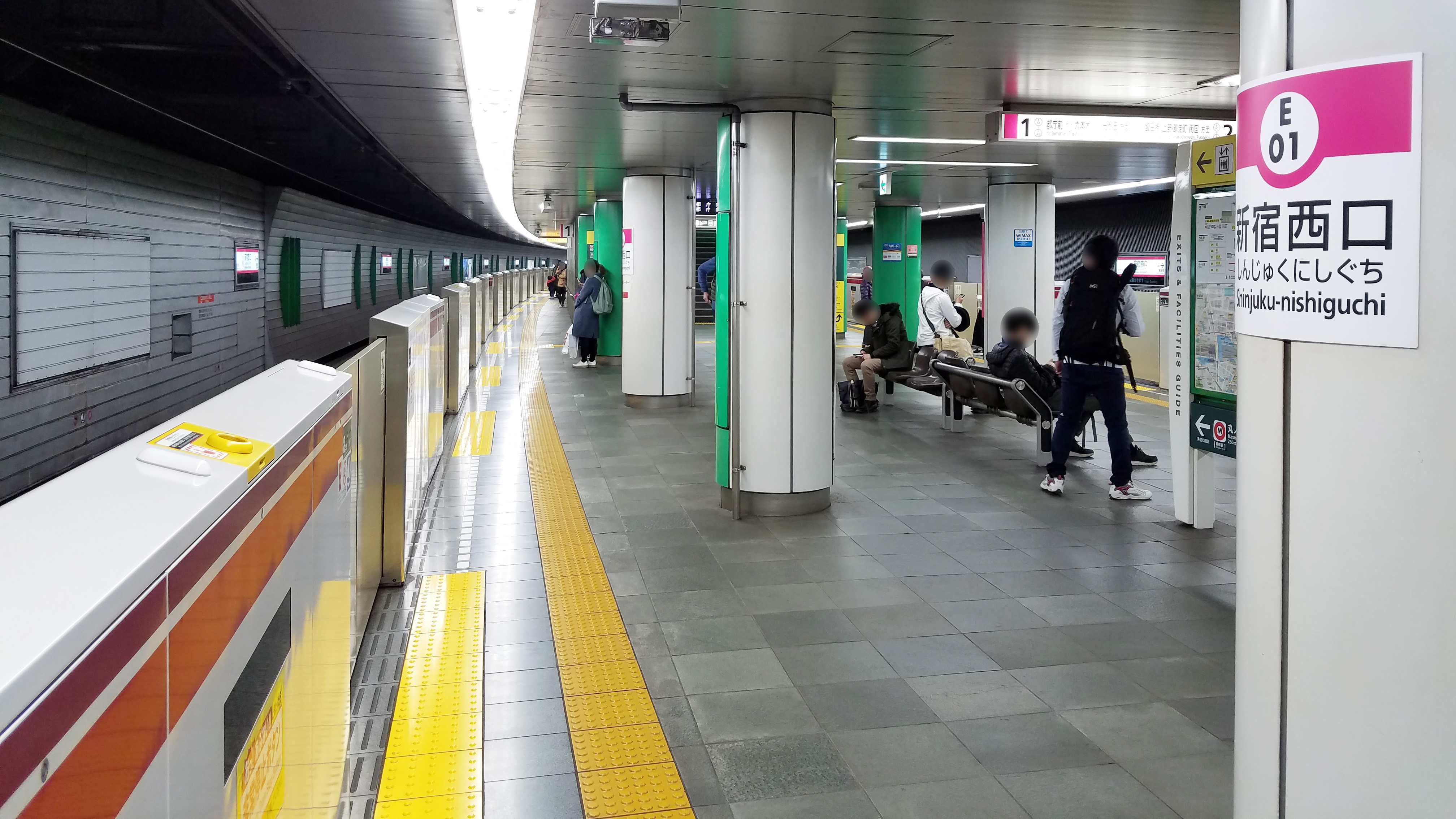 The platform at Shinjuku-Nishiguchi Station on the Toei Ōedo Line in Shinjuku city, Tokyo, Japan